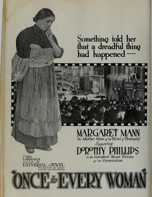 Margaret Mann and Dorothy Phillips in Once to Every Woman (1920) directed by Allen Holubar.